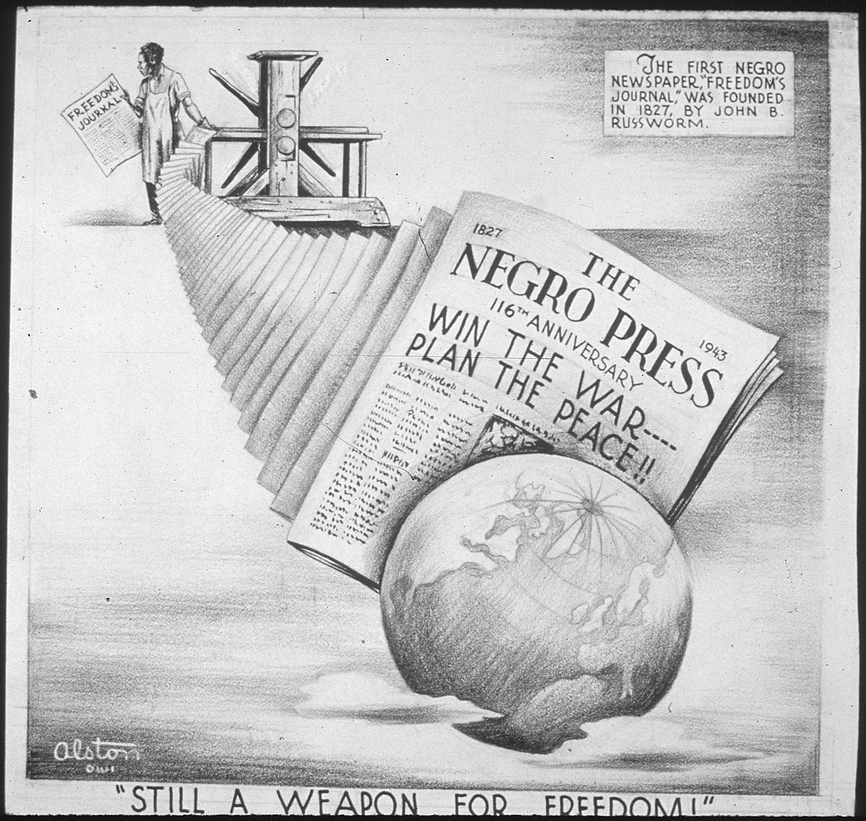 Scope and content: 116th Anniversary of the Negro Press - with caption and reference to the founder of the first Negro Newspaper, John B. Russworm.